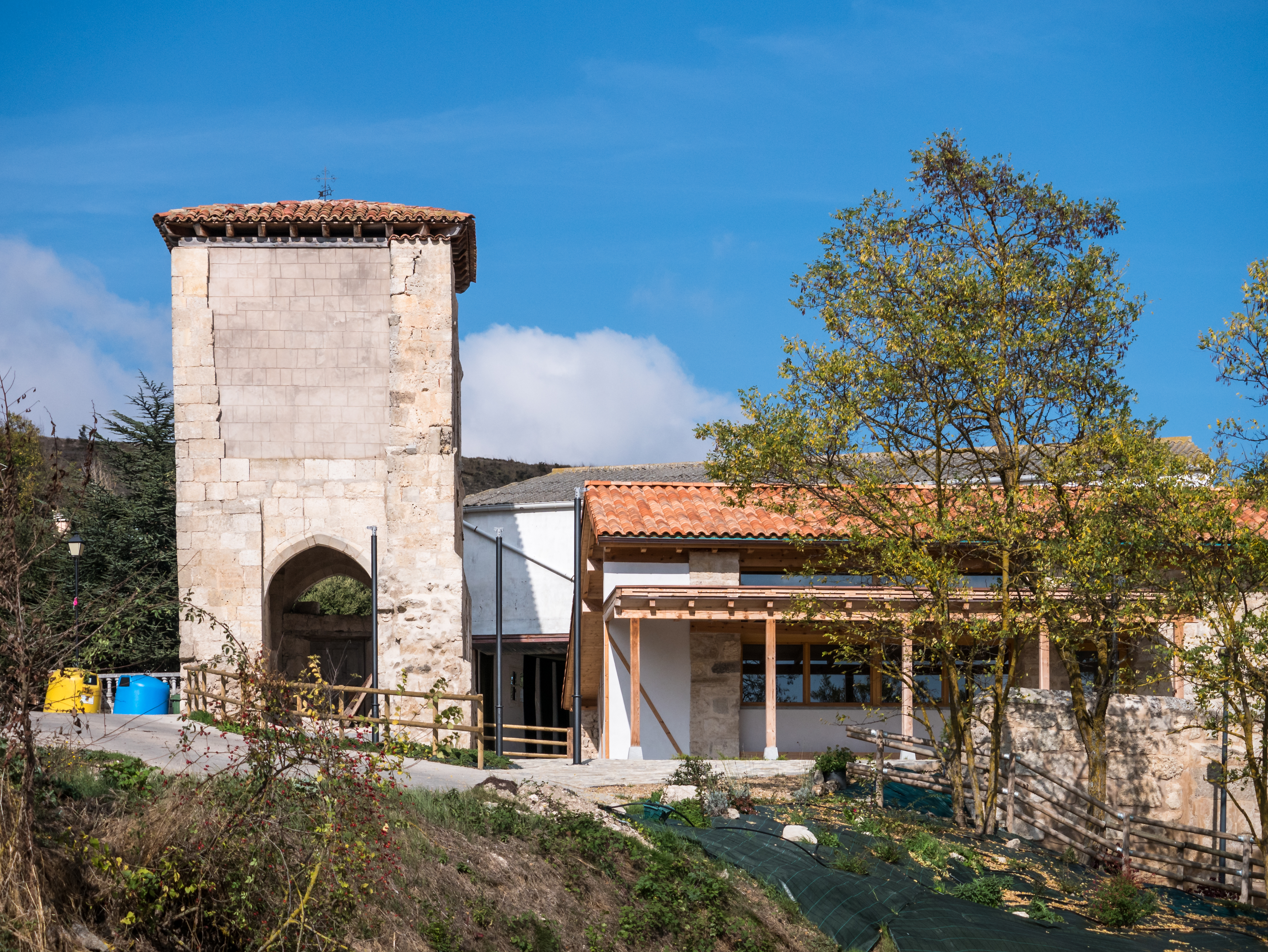 Former church tower of Reinoso. Burgos, Castilla-León, Spain